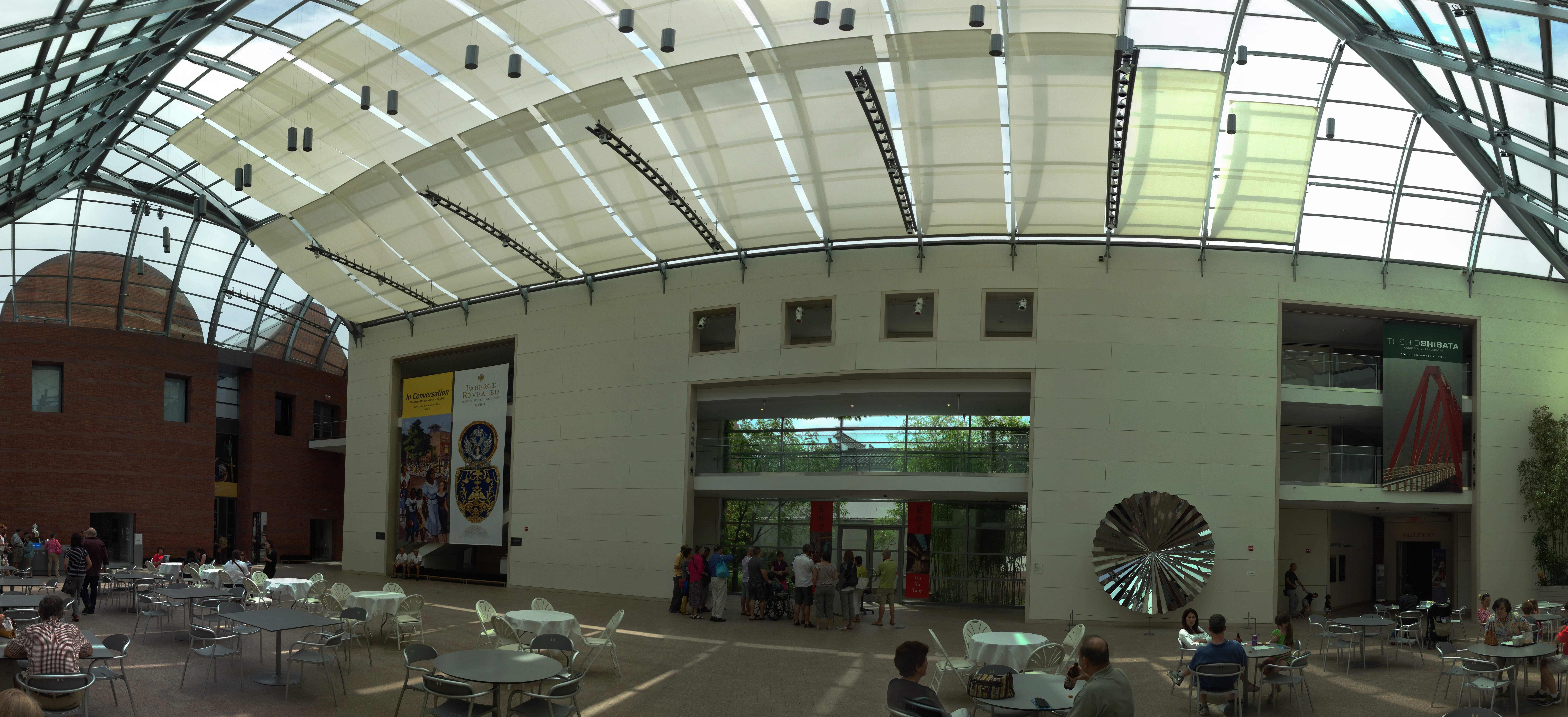 Peabody Essex Museum (Inside) - July 2013